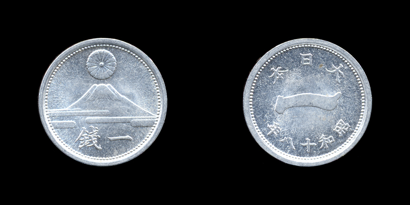 1sen-S18